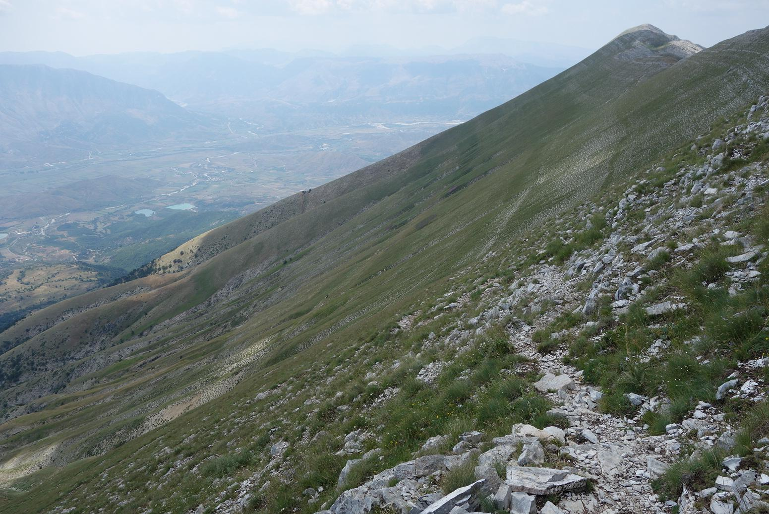 Just below top of Lunxhëria mountain